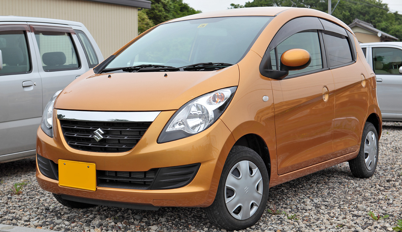 Suzuki Cervo G (HG21S)